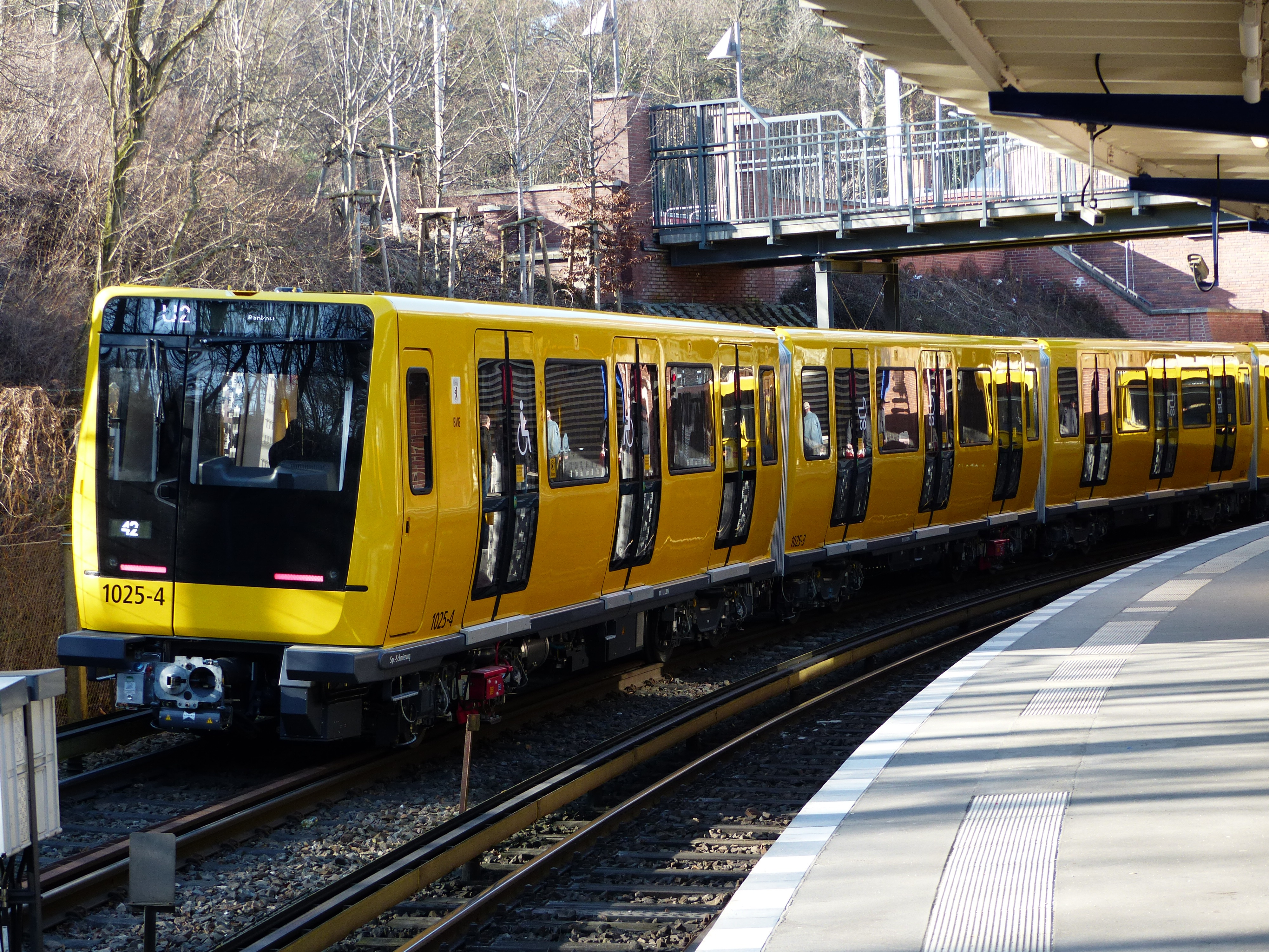 Berlin's U-Bahn train type IK, for testing purposes at Olympia-Stadion station, close to the Grunewald depot